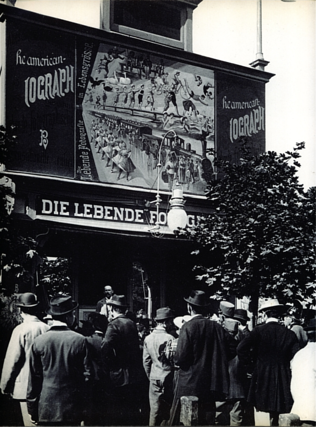 Promotion of a cinema in Vienna